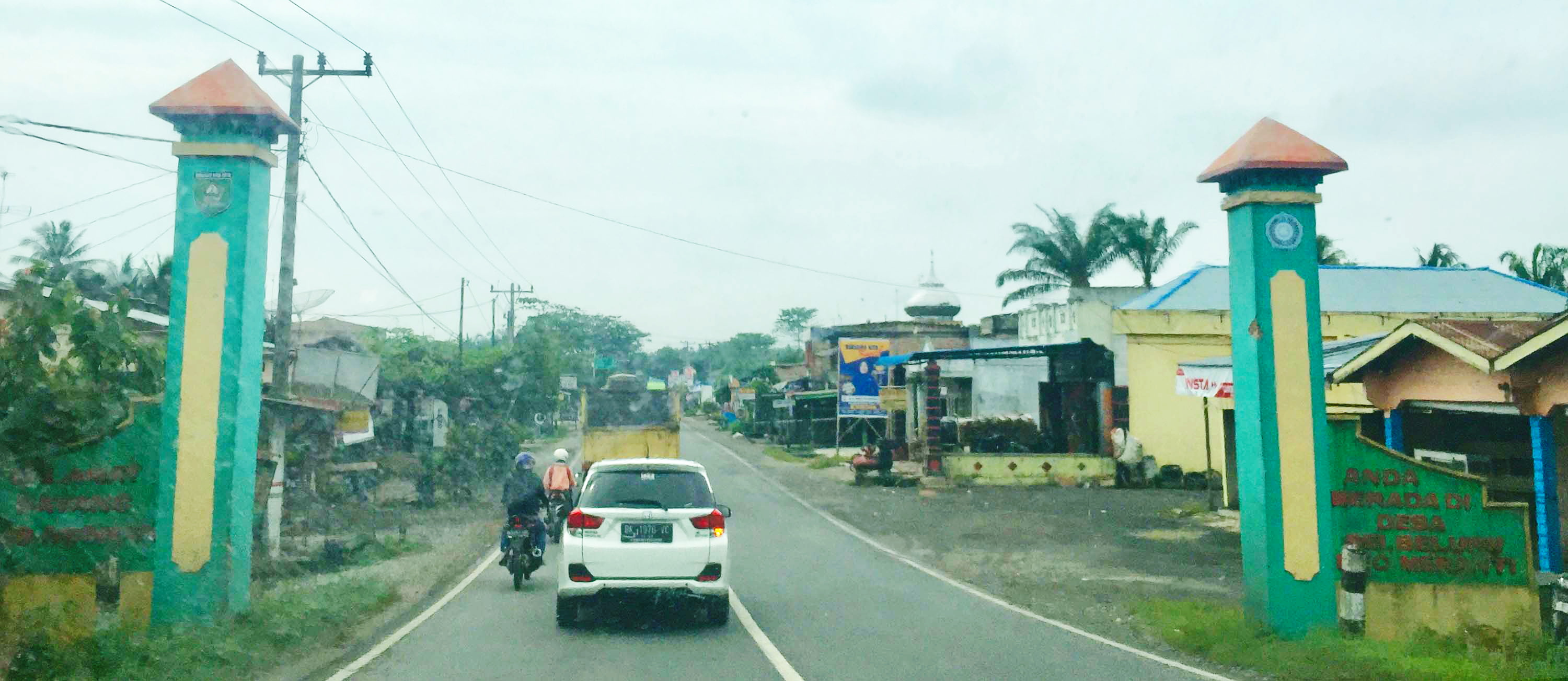 welcome gate to Sei Beluru, Meranti, Asahan